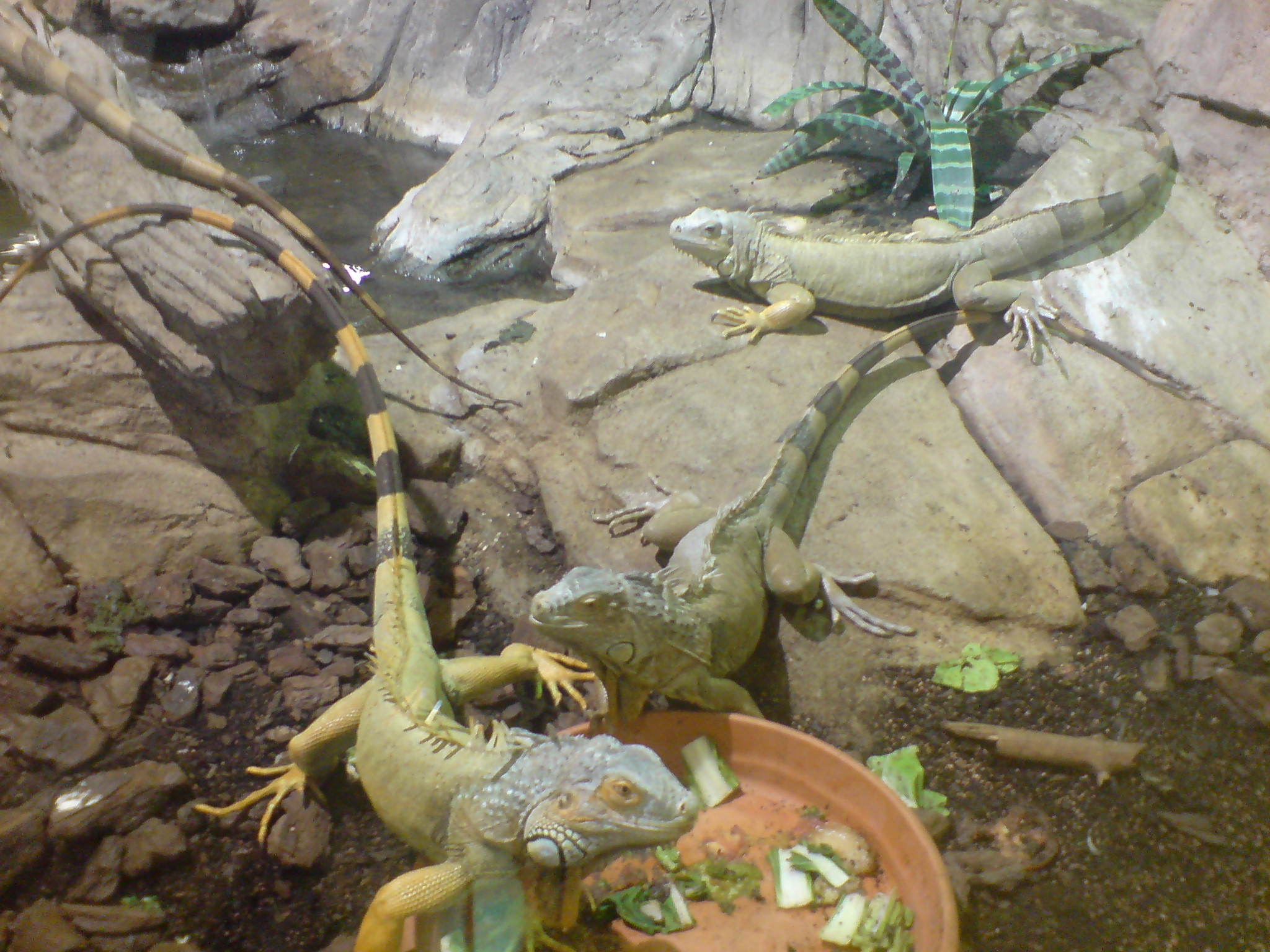 Iguanas in the Mini Hollywood zoo